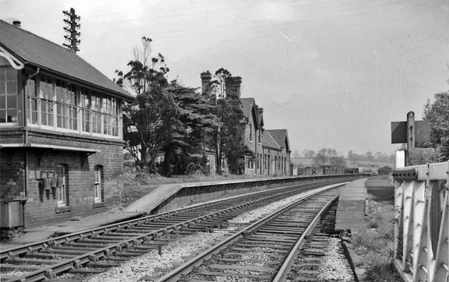 Breadsall Station (remains) View eastward, towards Nottingham etc.; ex-GNR Grantham - Nottingham - Derby seconadry main line. Station closed to passengers 6/4/53, to goods 3/12/62. The passenger service Derby (Friargate) - Nottingham (Victoria) ceased 7/9/64, but probably the line was not closed completely until 9/67. (The station-'master' was a woman - even in 1953, which may be significant to its apparent survival for another eight years).